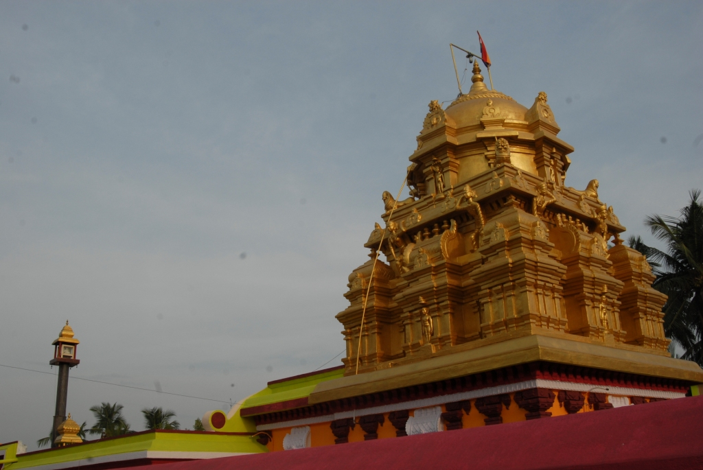 Shri 1008 Atheeswarar Digambar Jain Temple, Desur, Tamil Nadu, India